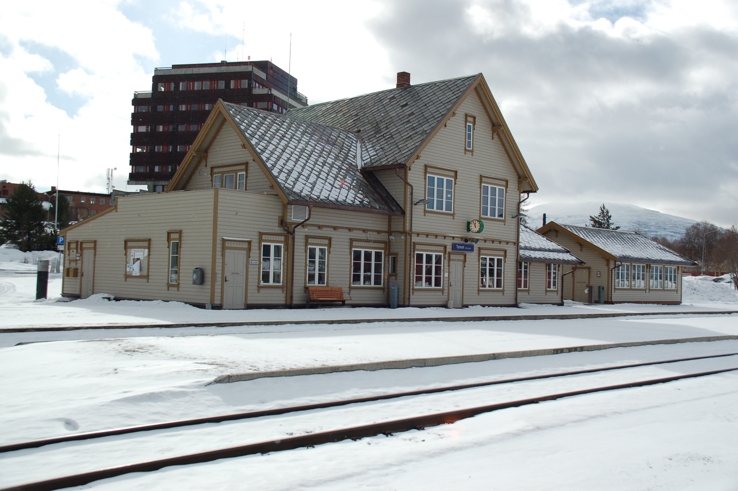 Tynset Railway Station, Tynset, Hedmark, Norway